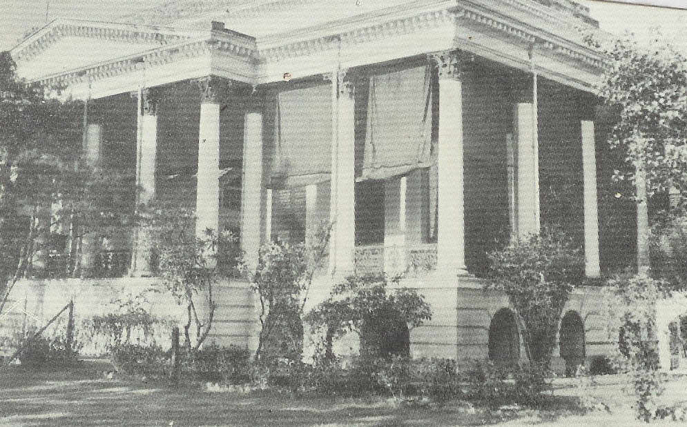 Pic from Bethune School and College Centenary Volume 1949. No copyright.